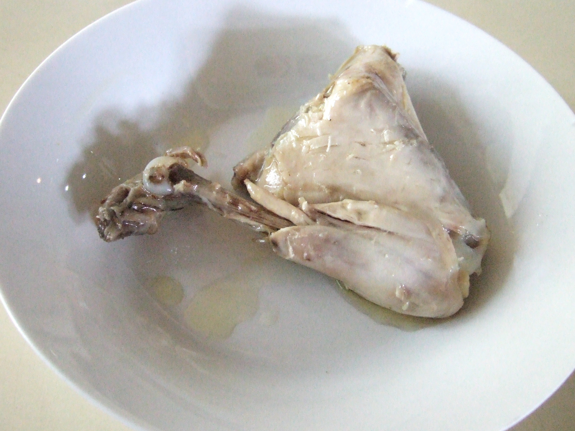 Pop chicken at Padang restaurant